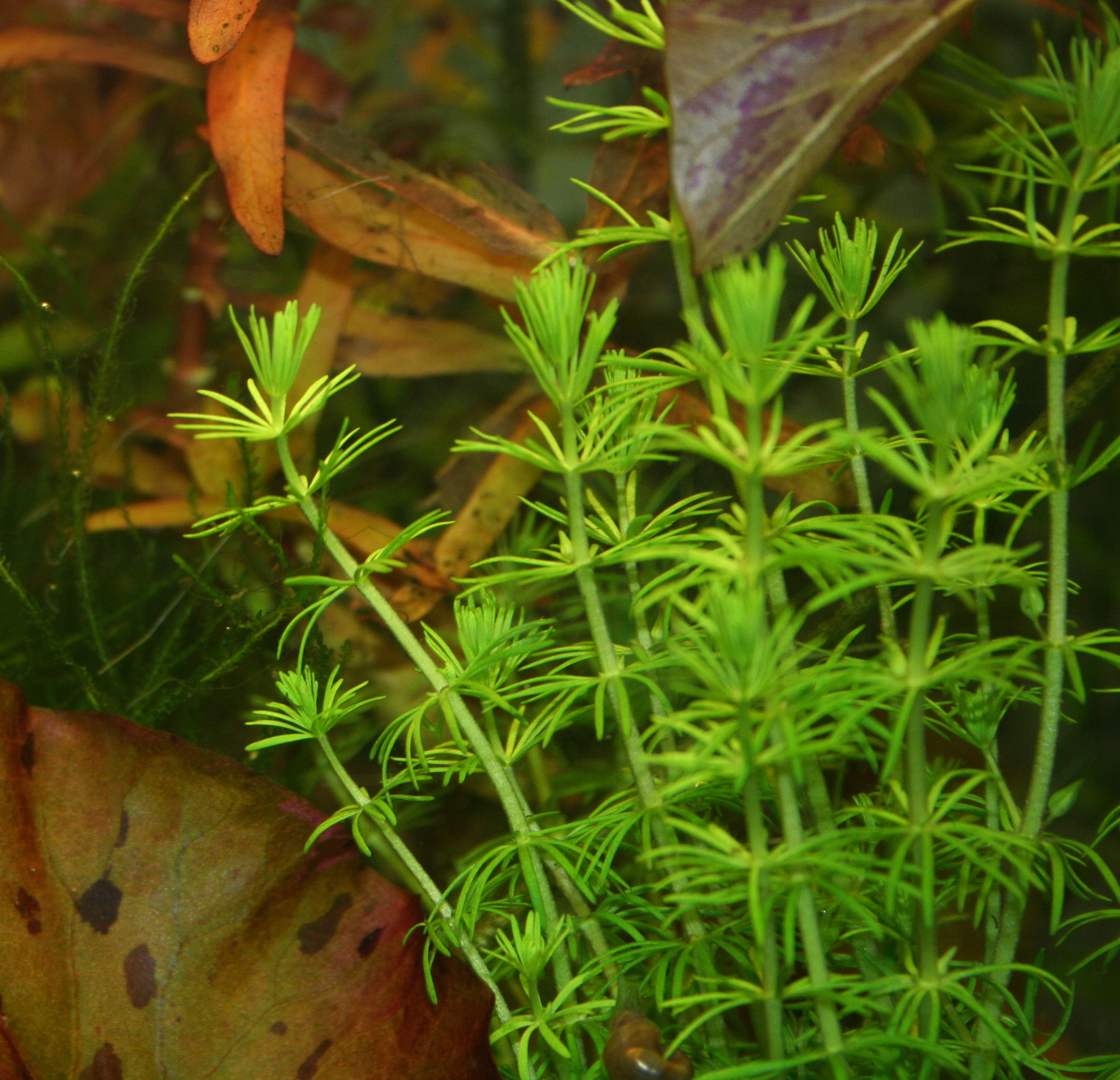 Bacopa myriophylloides growing in an aquarium.